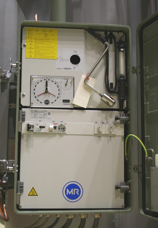 Tap changer, the classic motor-driven Reinhausen type ED100.